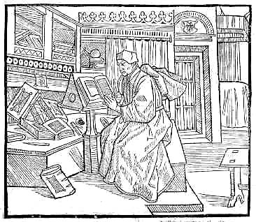 Illustration (woodcut) from : Publius Terentius Afer: Comoediae sex. Lyon: Johannes Trechsel, IV Kal. Sept. [29 VIII] 1493, St. Petersburg library copy